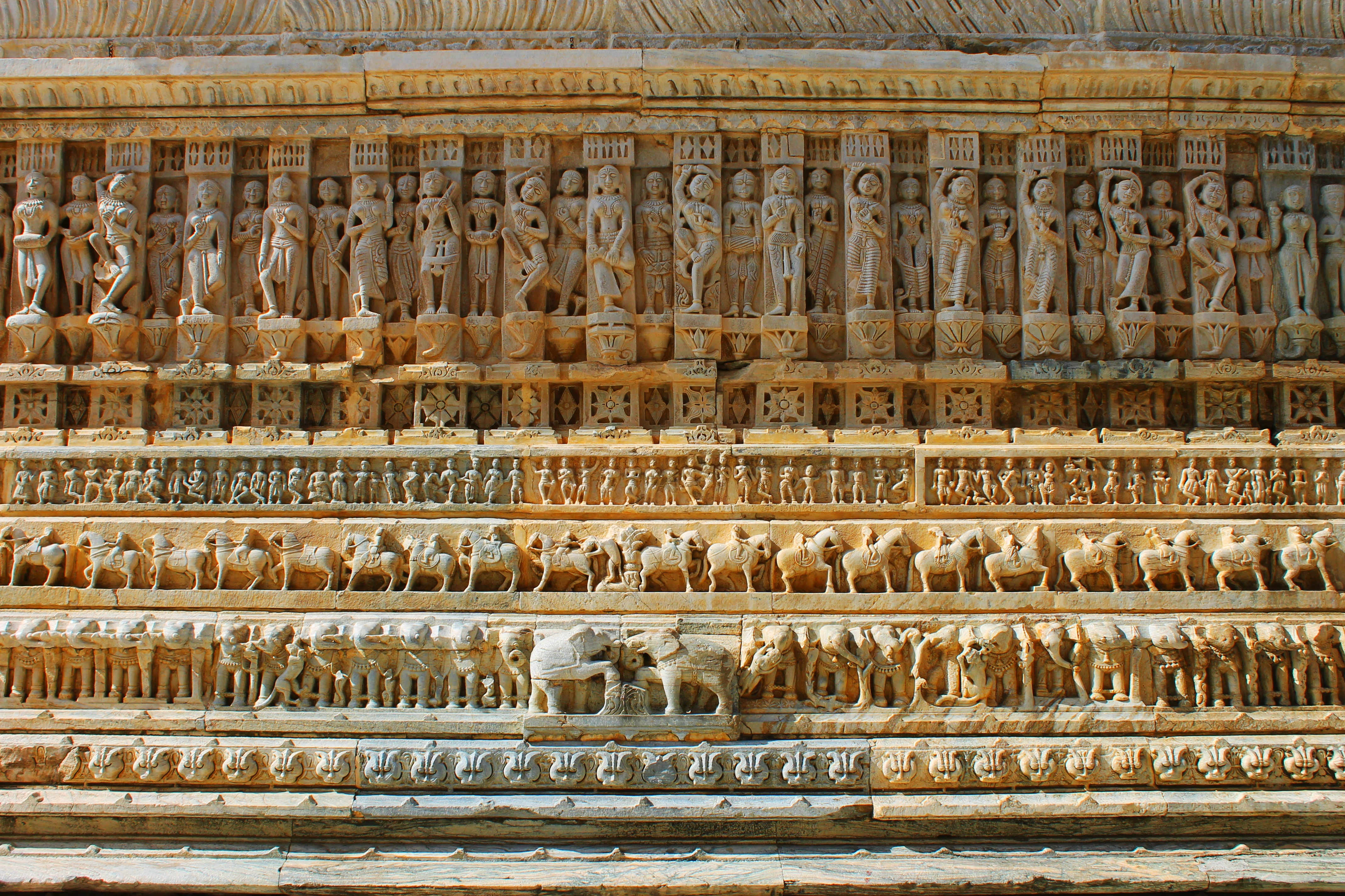 Marble sculptures adorn the walls of Jagdish Temple, Udaipur, RJ